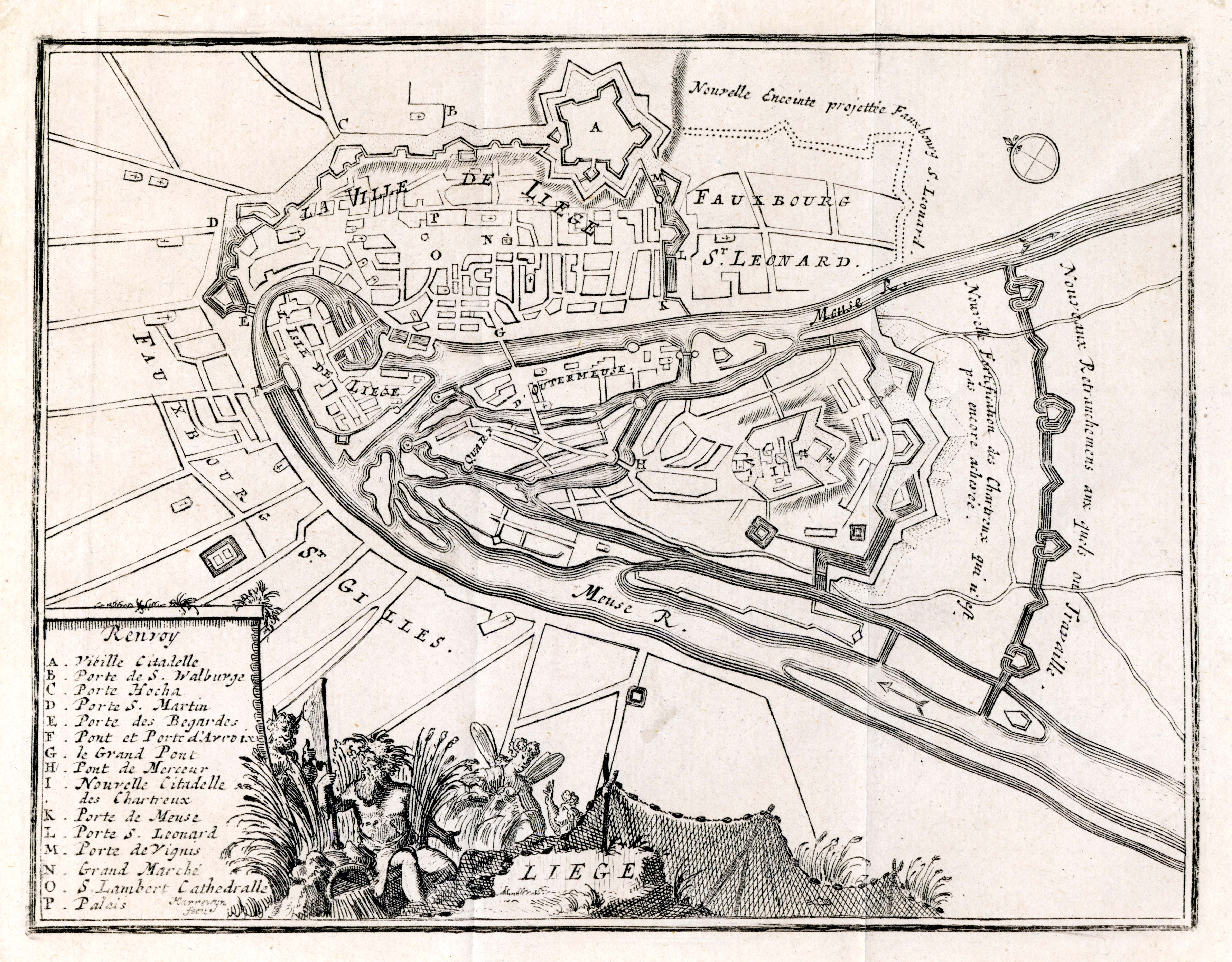 Map of Liège by Jacobus Harrewijn in 1785